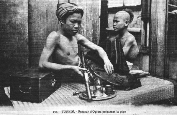 Opium consumer